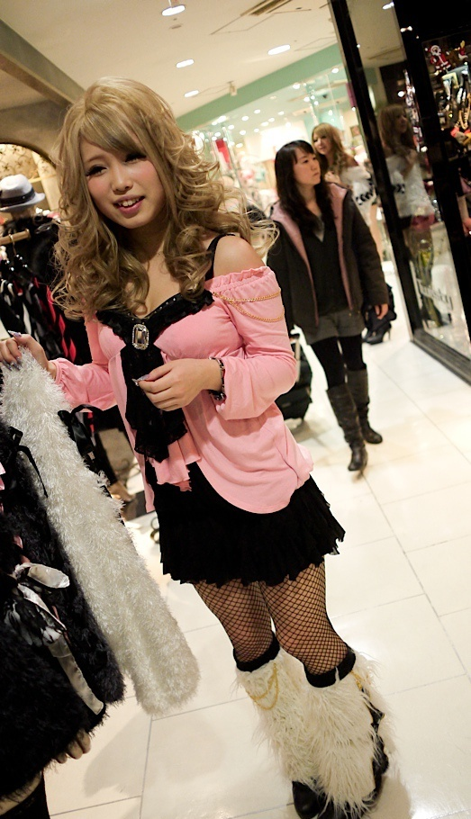 We needed to apply for a permit to take film and photos in 109 and even still we only got permission to do so in 3 stores. We didn't get to take photos in the store that this girl worked in but she let me take a few snaps after I asked her.